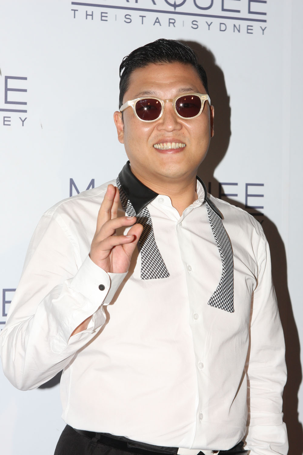 Psy Gangnam Style performs at Marquee, The Star, Sydney, Australia. Korean rap music sensation Psy (Park Jae-Sang) performed at Sydney's famous Marquee nightclub at midnight last night. It was obvious one or two VIP's and high rollers were in town, with police having a strong presence in and around the one time casino - now more an integrated entertainment and gaming hub, complete with nightclubs and entertainment attractions a plenty. The only thing - person Marquee Sydney and The Star was missing was Psy, and now that's complete how will they top that! We hear maybe with KISS, The Rolling Stones and / or Blondie and Pink, but that's just rumour at this stage... but do expect at least one of those big time acts to follow in Psy's footsteps. The music video for "Gangnam Style" is the most viewed K-pop video on YouTube, and also the most "liked" video on the site. Published on July 15, 2012, the video has over 480 million views, and more than 4.1 million "likes." Psy has appeared on numerous television programs, including The Ellen DeGeneres Show, Extra, Good Sunday: X-Man, The Golden Fishery, The Today Show, Saturday Night Live and Sunrise. Stay tuned and don't change your dial for more hot news on Psy and more of the world's top entertainment attractions. Websites Psy official website Marquee Sydney Eva Rinaldi Photography Flickr Eva Rinaldi Photography Music News Australia